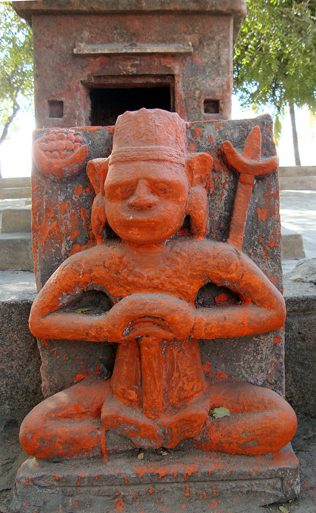 Gorakhnath (old pratima-odadar temp-porbandar) ગુજરાતી: ગુરુ ગોરખનાથની પ્રાચીન પ્રતિમા, ગોરખનાથ મંદિર, ઓડદર, પોરબંદર, ગુજરાત, ભારત.